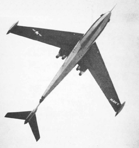 A Martin XP6M-1 Seamaster photographed from below.